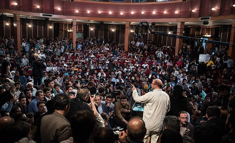 Mohammad Bagher Ghalibaf supporters rally in Tehran